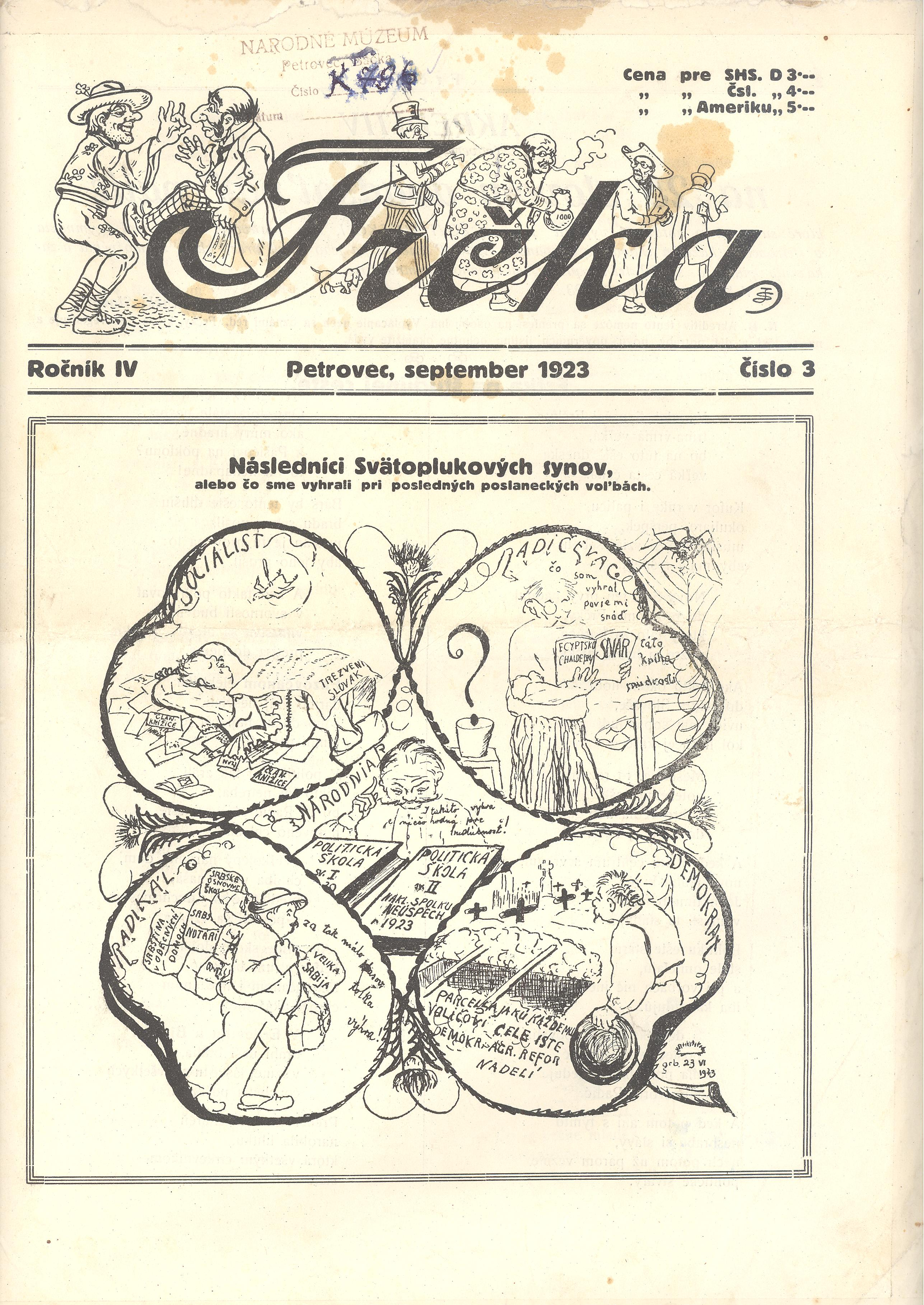 Magazin "Frčka" from Bački Petrovac, 1923. Museum of vojvodinian Slovaks. Аҧсшәа: Časopis Frčka iz Bačkoh Petrovca, 1923. Muzej vojvođanskih Slovaka.